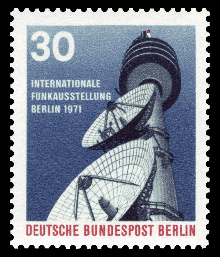 International radio exhibition Berlin